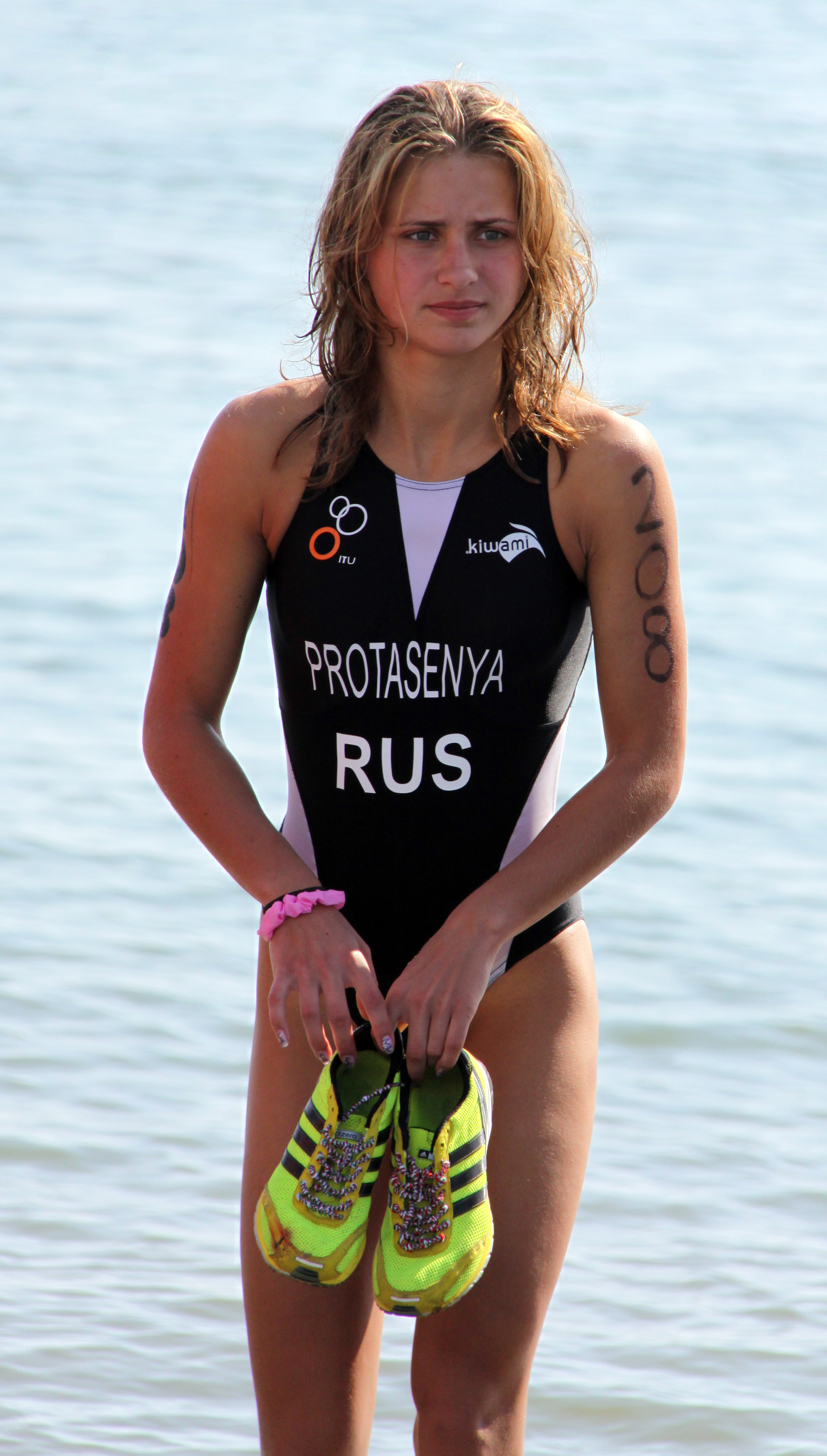 Anastasia Protasenya (Анастасия Александровна Протасеня) winning the gold medal at the Premium European Cup triathlon in Alanya, 2010.